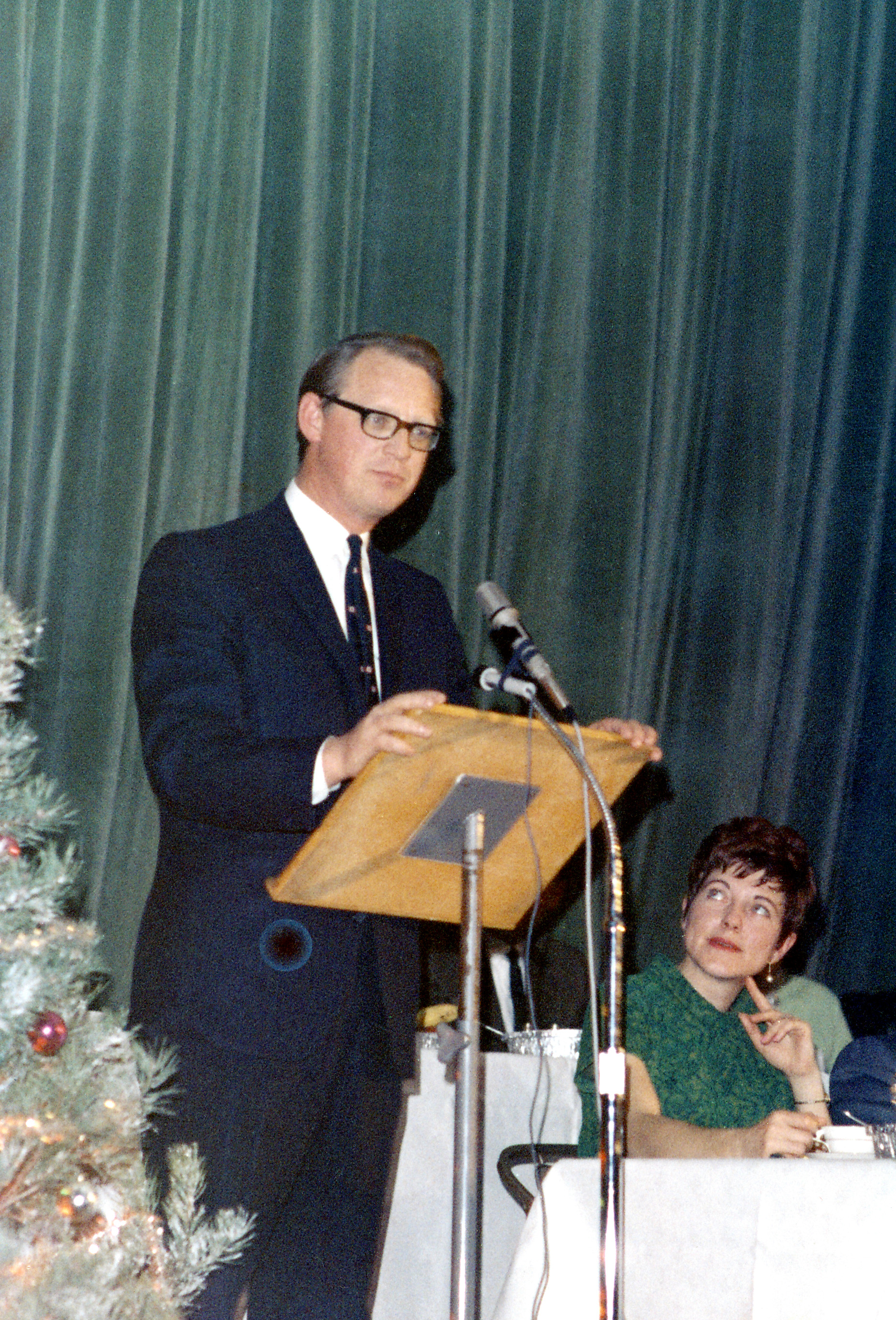 Robert Nixon, former leader of the Ontario Liberal Party